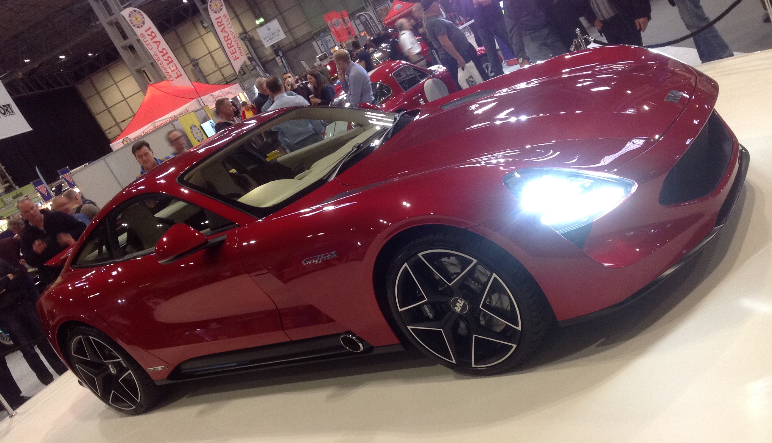 The Newest car at the NEC Classic Car Show, Birmingham 10 November 2017